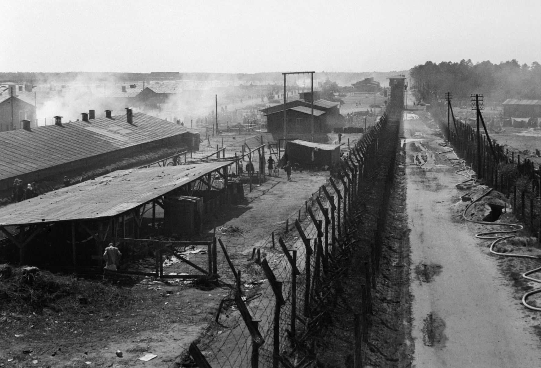 The Liberation of Bergen-belsen Concentration Camp, April 1945 Overview of Camp No 1, now substantially evacuated, taken from a watch tower used by the German guards.